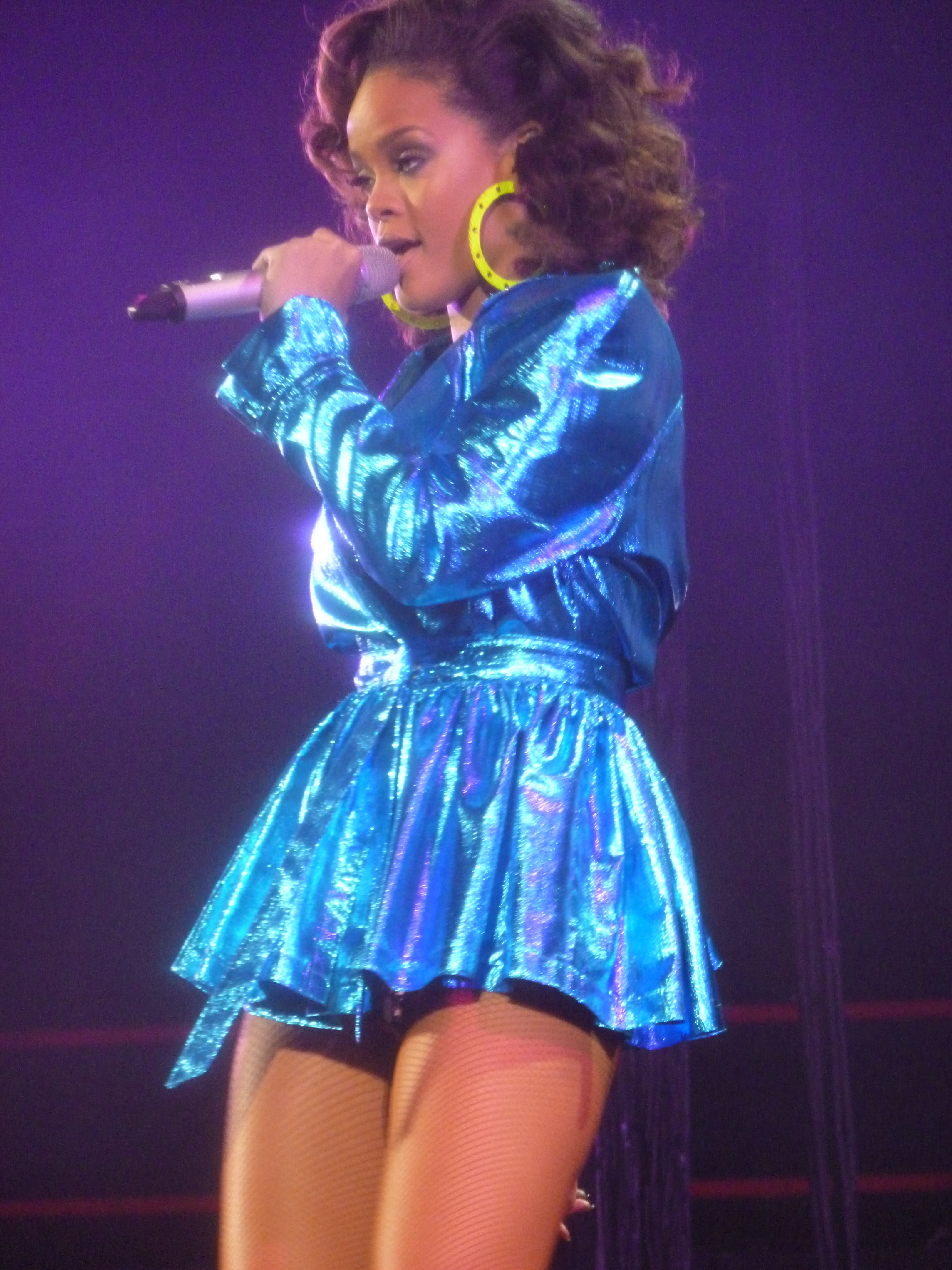 Live In Paris - Paris Bercy 2011